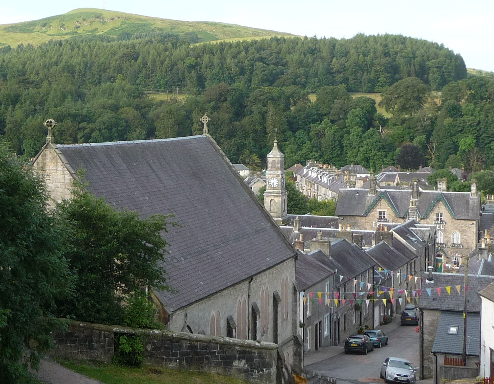 Church in Langholm, Dumfries and Galloway, Scotland